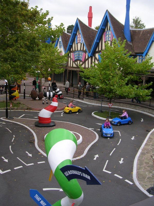 Miniature car course for children at Alton Towers Park. Photo taken in September 2007 with a Nikon Coolpix 3200 and reworked in Paint Shop Pro.